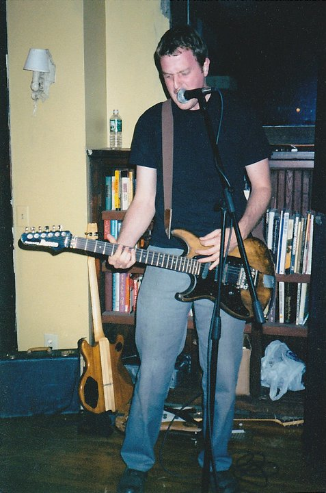 North of America live in Indianapolis, Indiana at the Secret Location in the early 2000s.